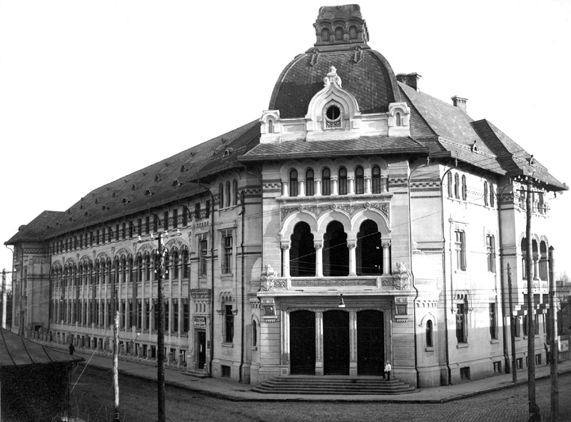 The former Palace of the Commercial School of Ploieşti. It became the high school Caragiale in 1948. The building a been realised between 1924 and 1932. It is classified historical monument and is located strada Gheorghe Doja, n°98 (former calea Oilor) Ploieşti, Judeţul Prahova, Romania. We are the only heirs and descendants of Toma T. Socolescu (died in 1960 in Bucharest) and therefore owner of all his intellectual rights.